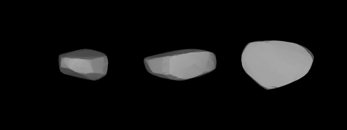 A three-dimensional model of 193 Ambrosia that was computed using light curve inversion techniques.